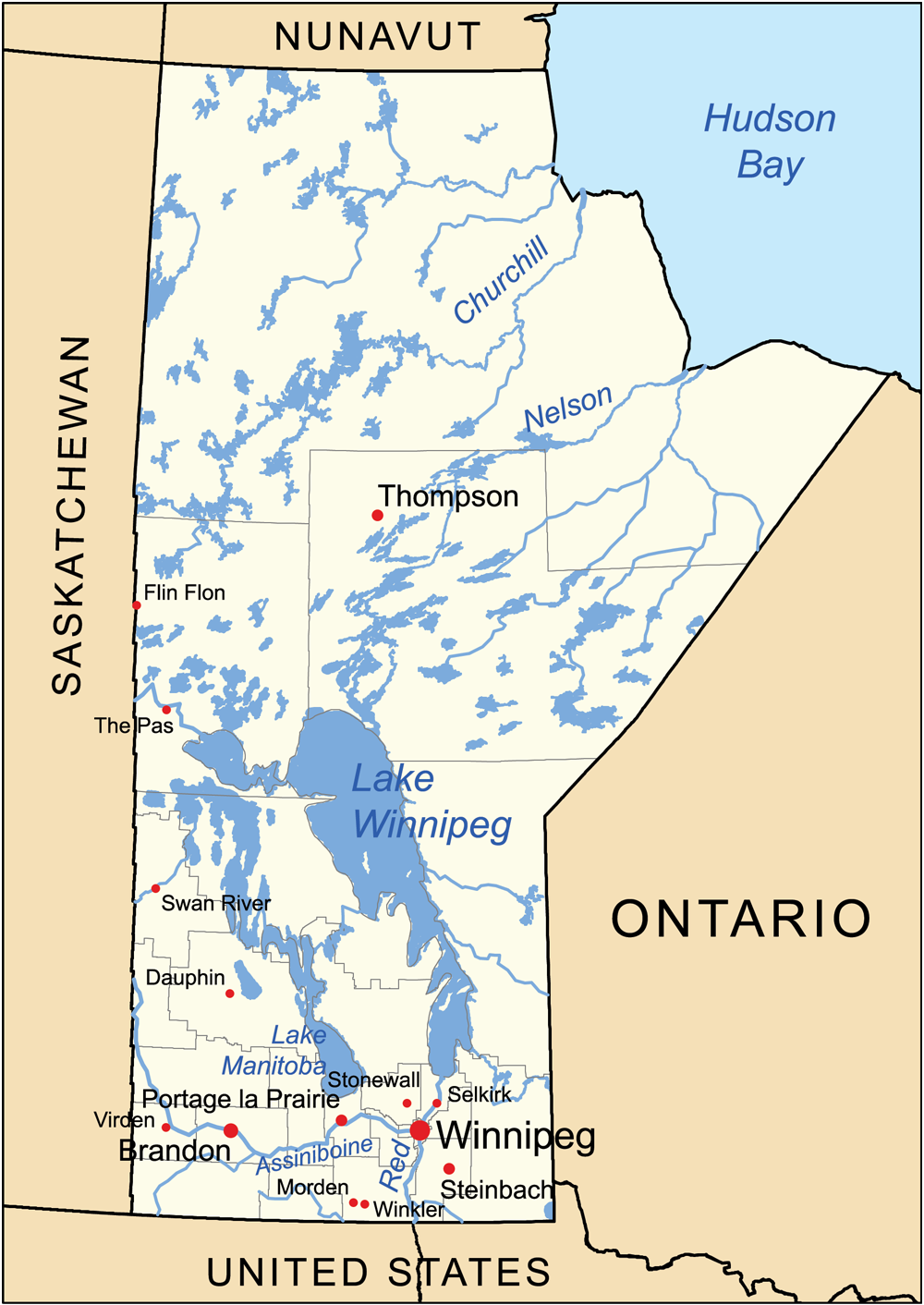 This is a general map of the Manitoba.